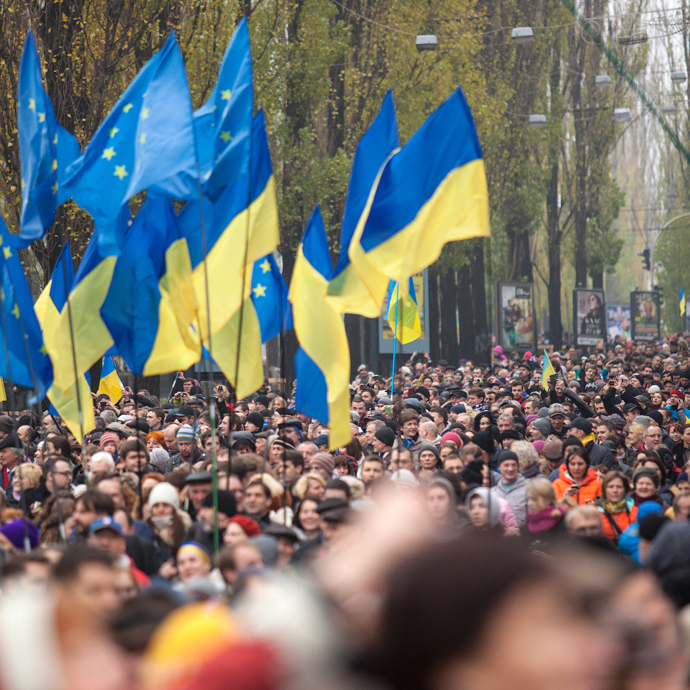 Euromaidan in Kyiv on 1 December 2013 by Nwssa Gnatoush